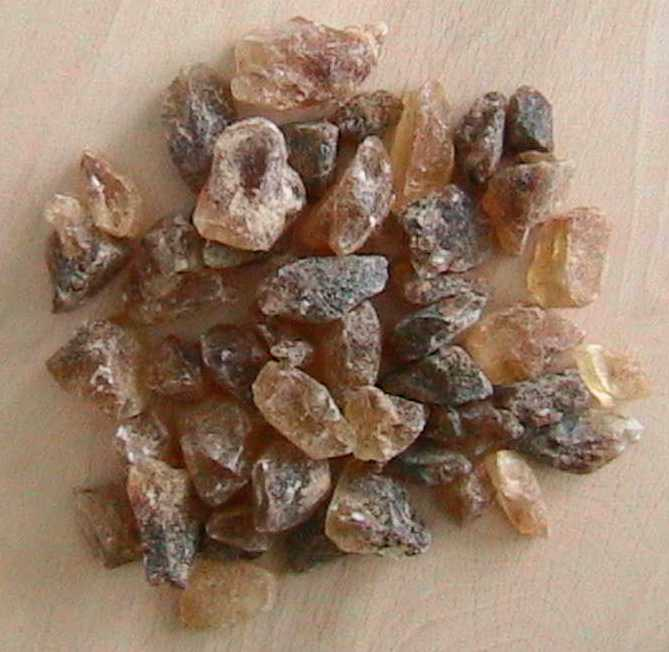 Rock candy